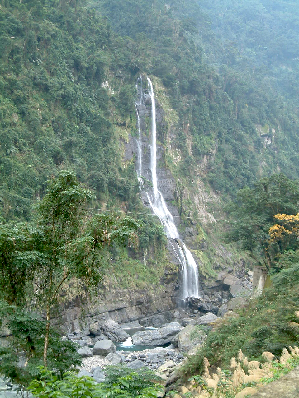 Wulai Waterfall